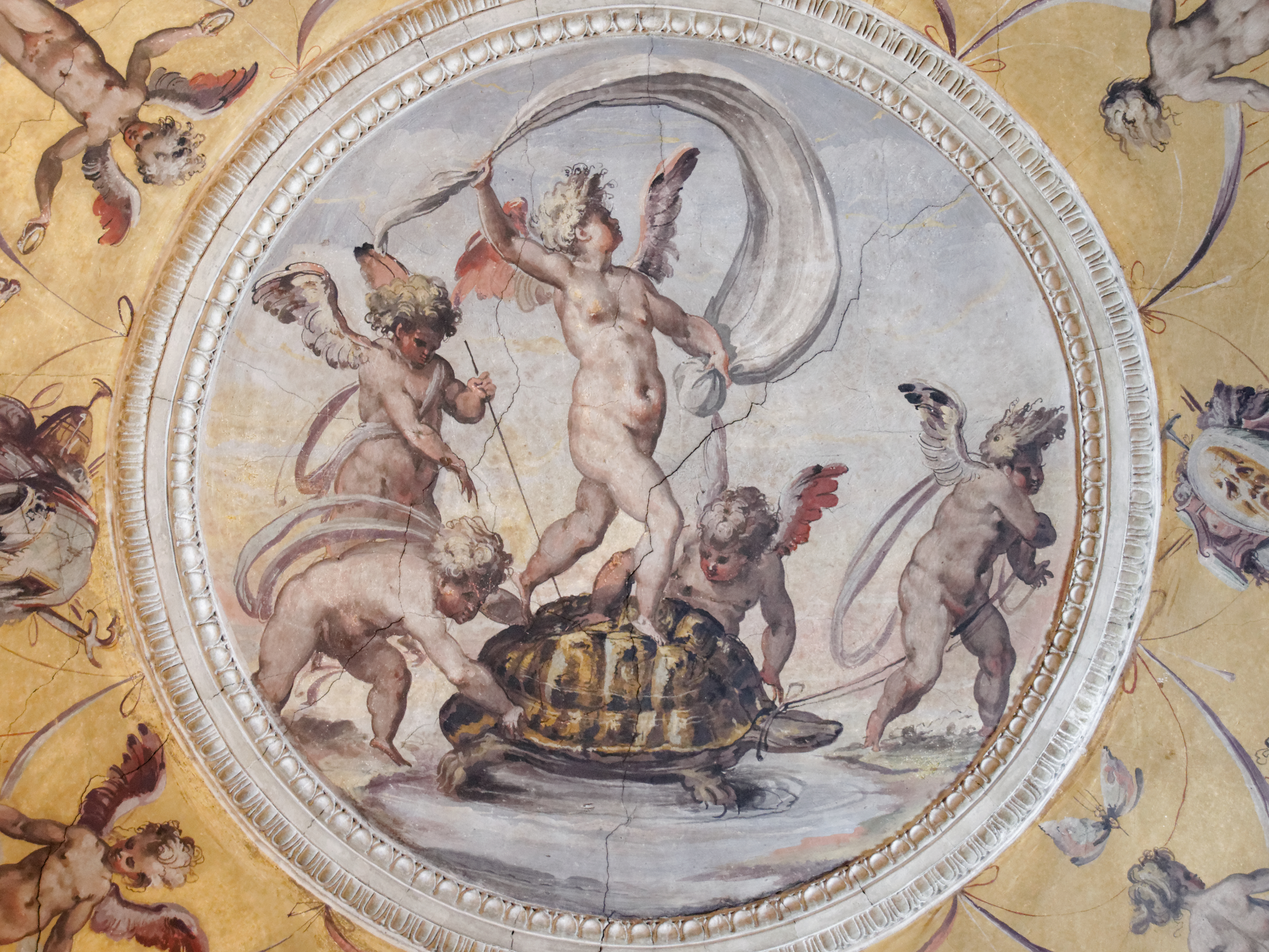 Putti with a tortoise, grotesque decoration.